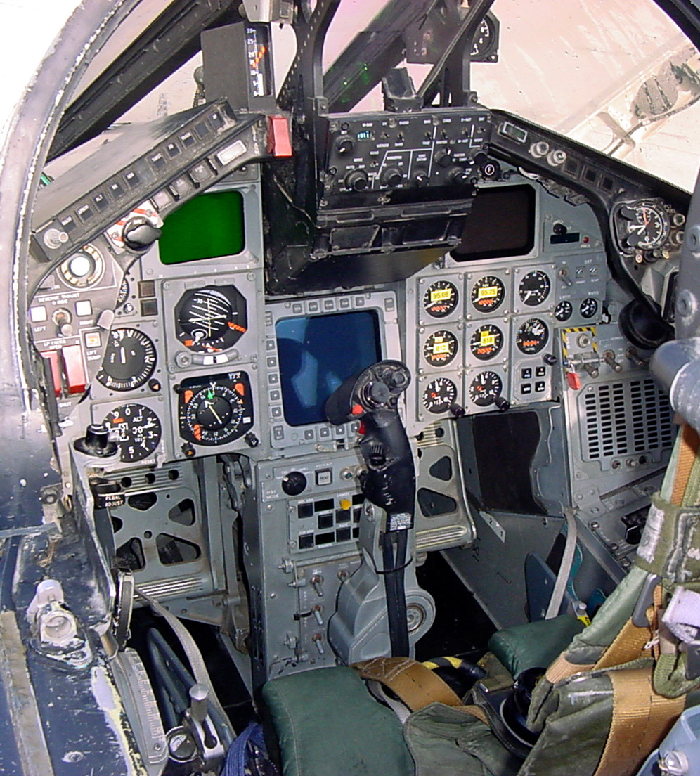 Photo taken at Al-Udeid Air Base, Qatar during Operation Iraqi Freedom.